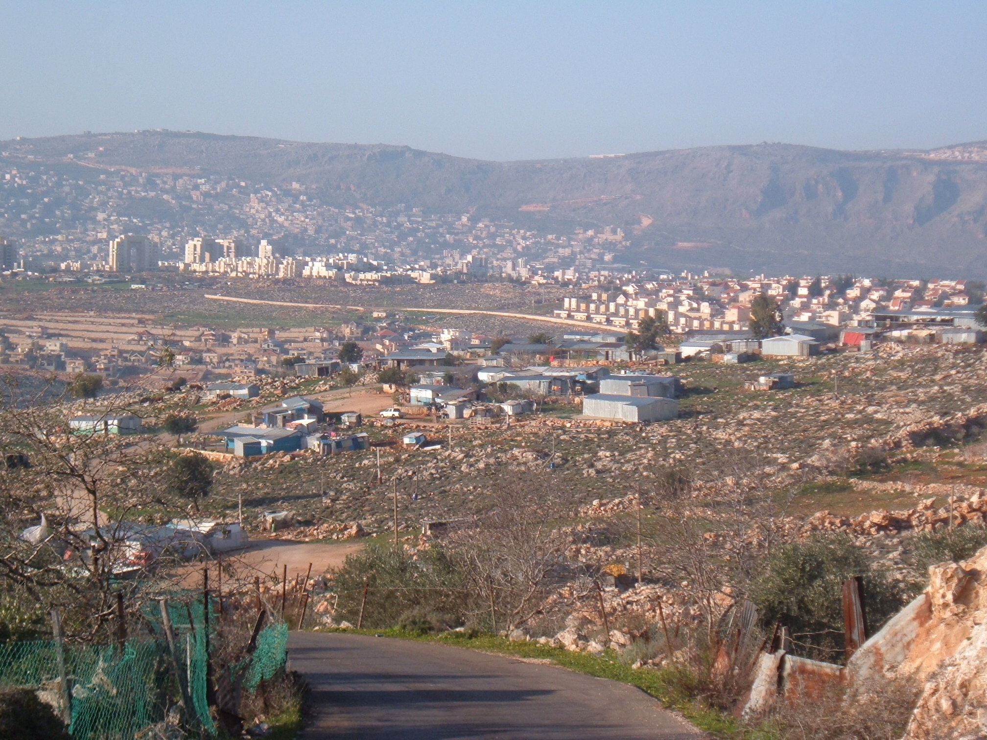 Arab al-Na'im is the shacks and houses being built in the front of the picture. Behind is Karmiel. Perticularly can be seen the tall buildings of Ramat rabin. Behind are the houses of Bi'ina and Deir al-Asad ערב אל נעים